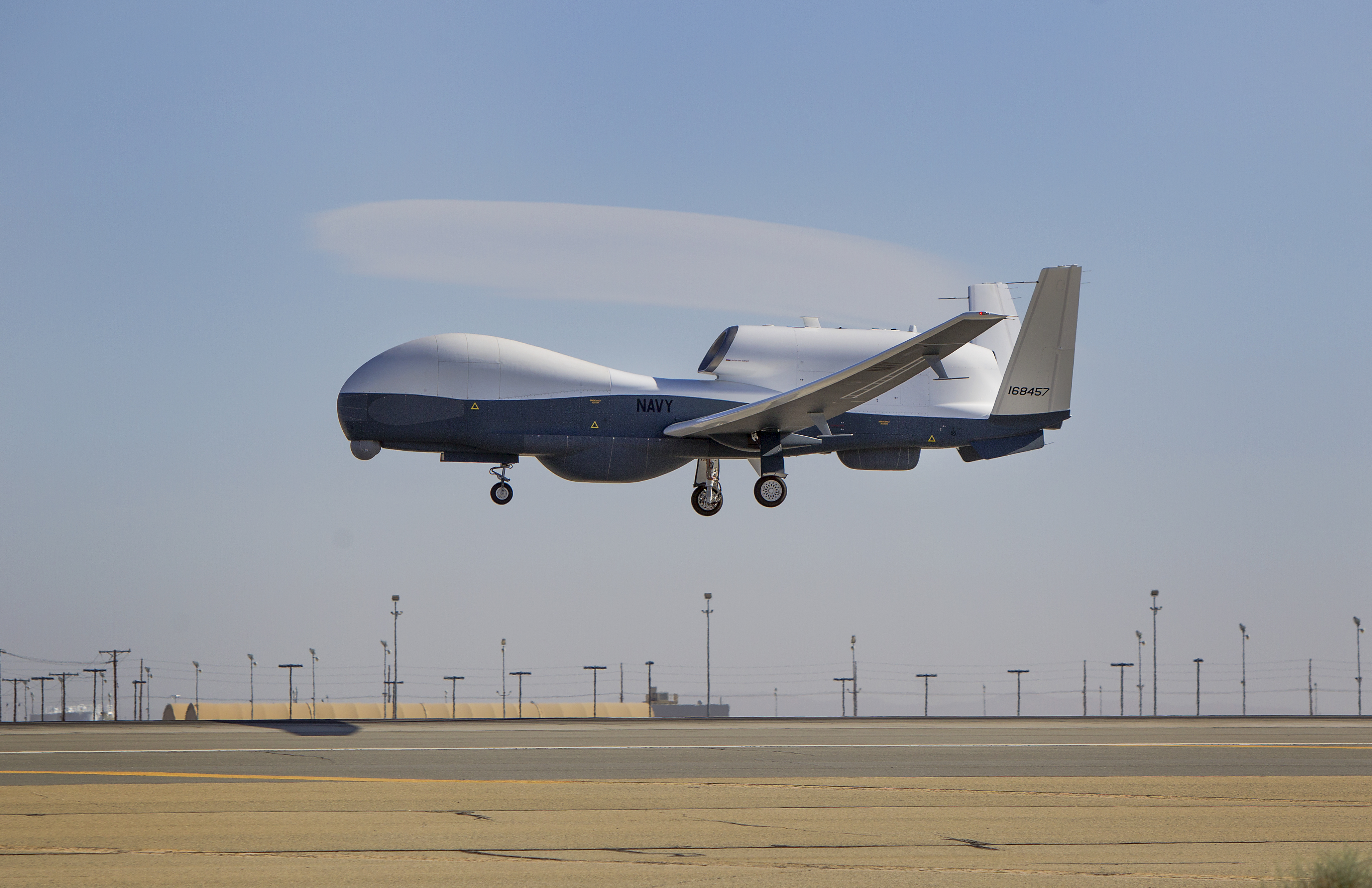 The Triton unmanned aircraft system completes its first flight May 22, 2013 from the Northrop Grumman manufacturing facility in Palmdale, Calif. The 80-minute flight successfully demonstrated control systems that allow Triton to operate autonomously. Triton is designed to fly surveillance missions up to 24-hours at altitudes of more than 10 miles, allowing coverage out to 2,000 nautical miles. The system's advanced suite of sensors can detect and automatically classify different types of ships. (U.S. Navy photo courtesy of Northrop Grumman photo by Alex Evers/Released) 130522-O-ZZ999-115